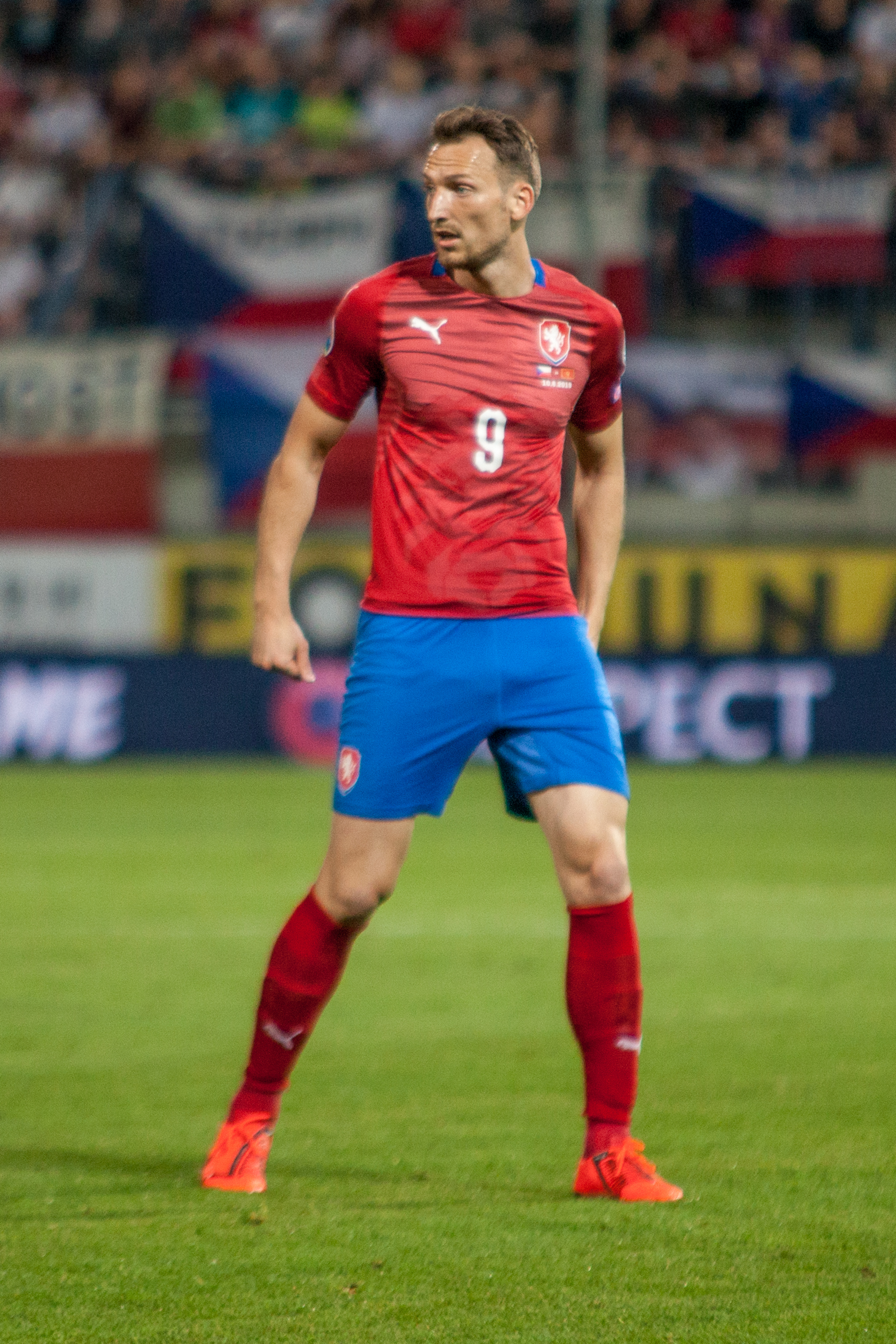 Libor Kozák at EURO 2020 Qualifying Round Czech Republic-Montenegro (10/6/2019, Ander Stadium, Olomouc) Personality rights warningAlthough this work is freely licensed or in the public domain, the person(s) shown may have rights that legally restrict certain re-uses unless those depicted consent to such uses. In these cases, a model release or other evidence of consent could protect you from infringement claims.